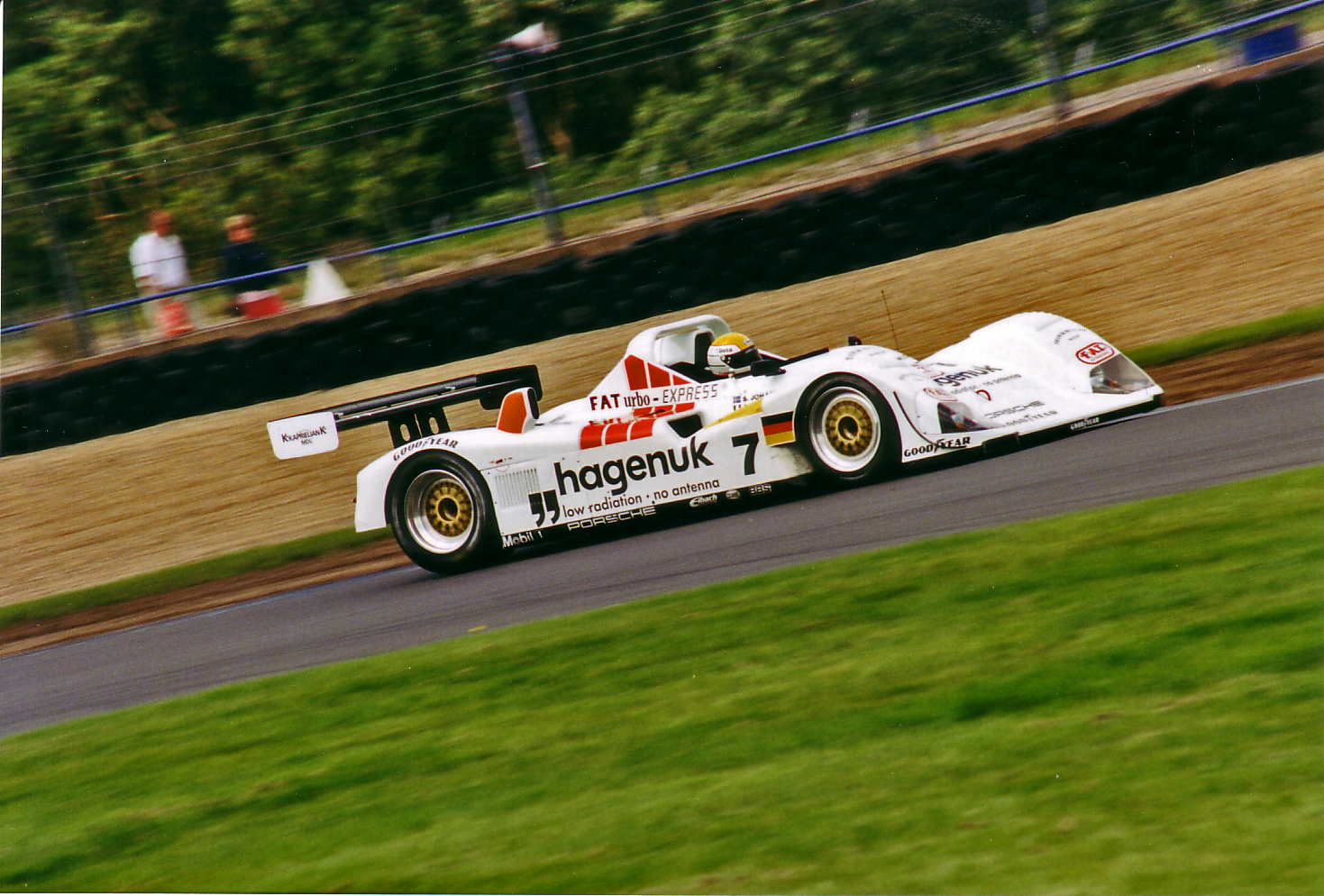 Stefan Johansson Joest Porsche WSC95 Donnington 5th July 1997